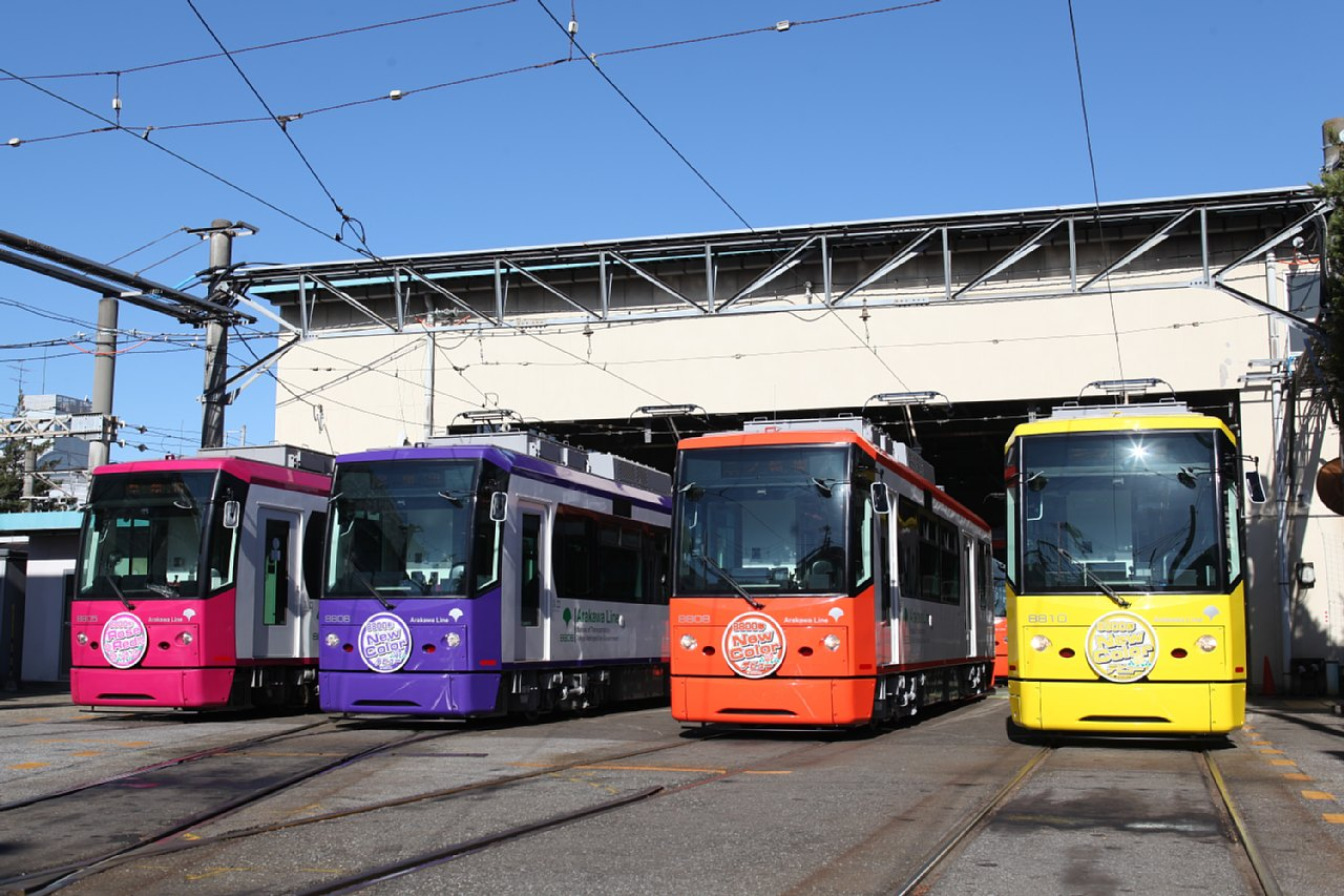 Four Toei 8800 series tramcars (8805, 8806, 8808, and 8810) at Arakawa Depot on the Toden Arakawa Line in Tokyo